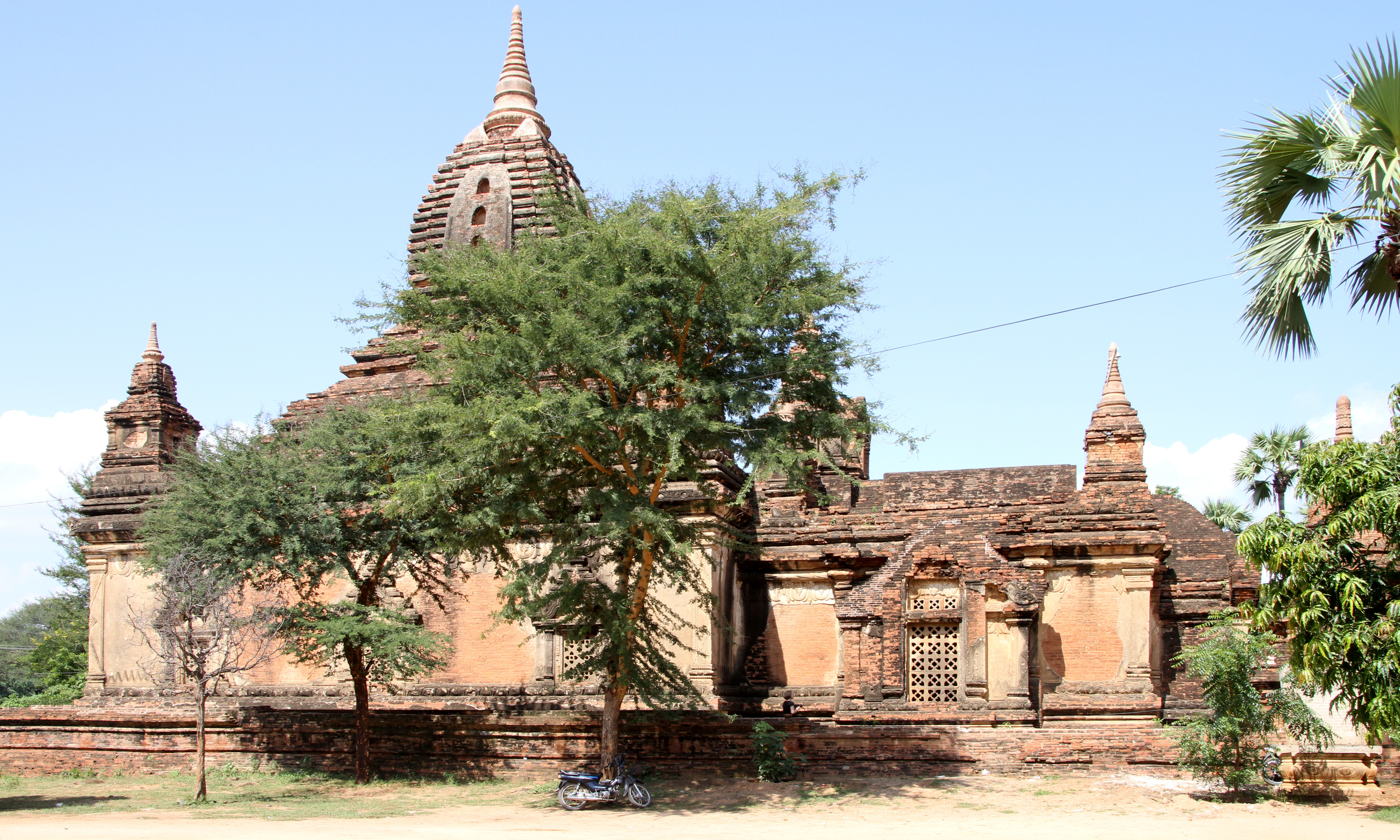 Gubyaukgyi temple (Myinkaba) in Bagan, Myanmar.